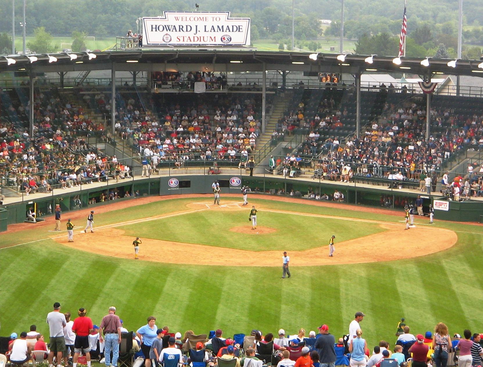 Little League World Series Game in Howard J. Lamade Stadium during the 2007 Little League World Series in South Williamsport, Lycoming County, Pennsylvania, USA